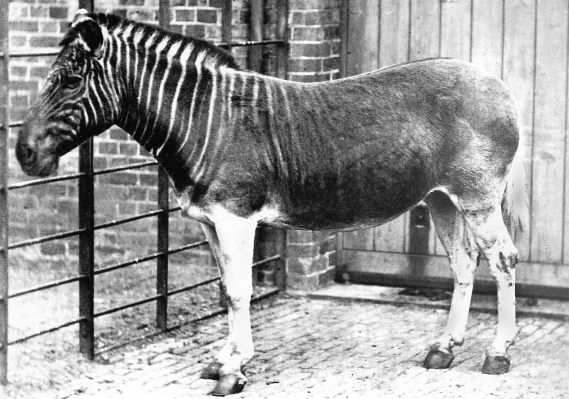 Quagga (Equus quagga quagga) is an extinct sub-species of zebra. Mare, London, Regent's Park ZOO.